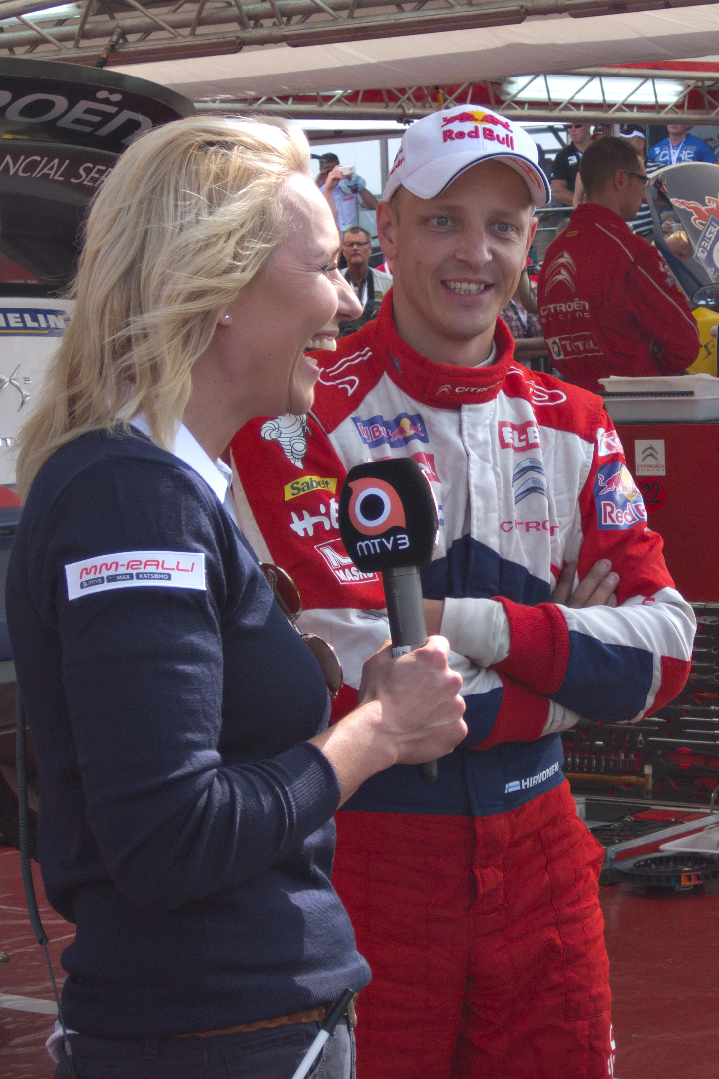 Action from the service D during the 2012 Rally Finland.